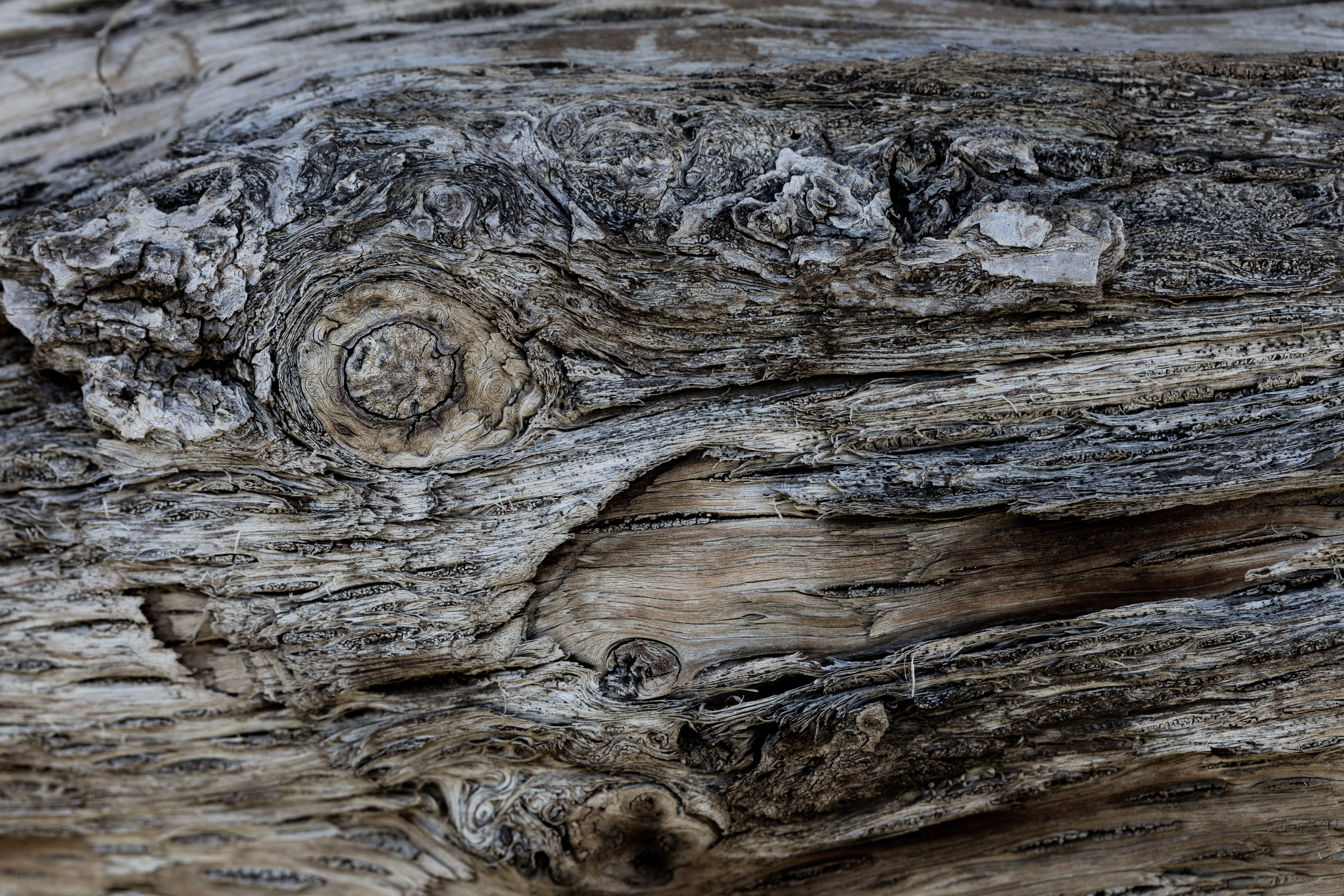 A close up of wood that shows texture, abstract.